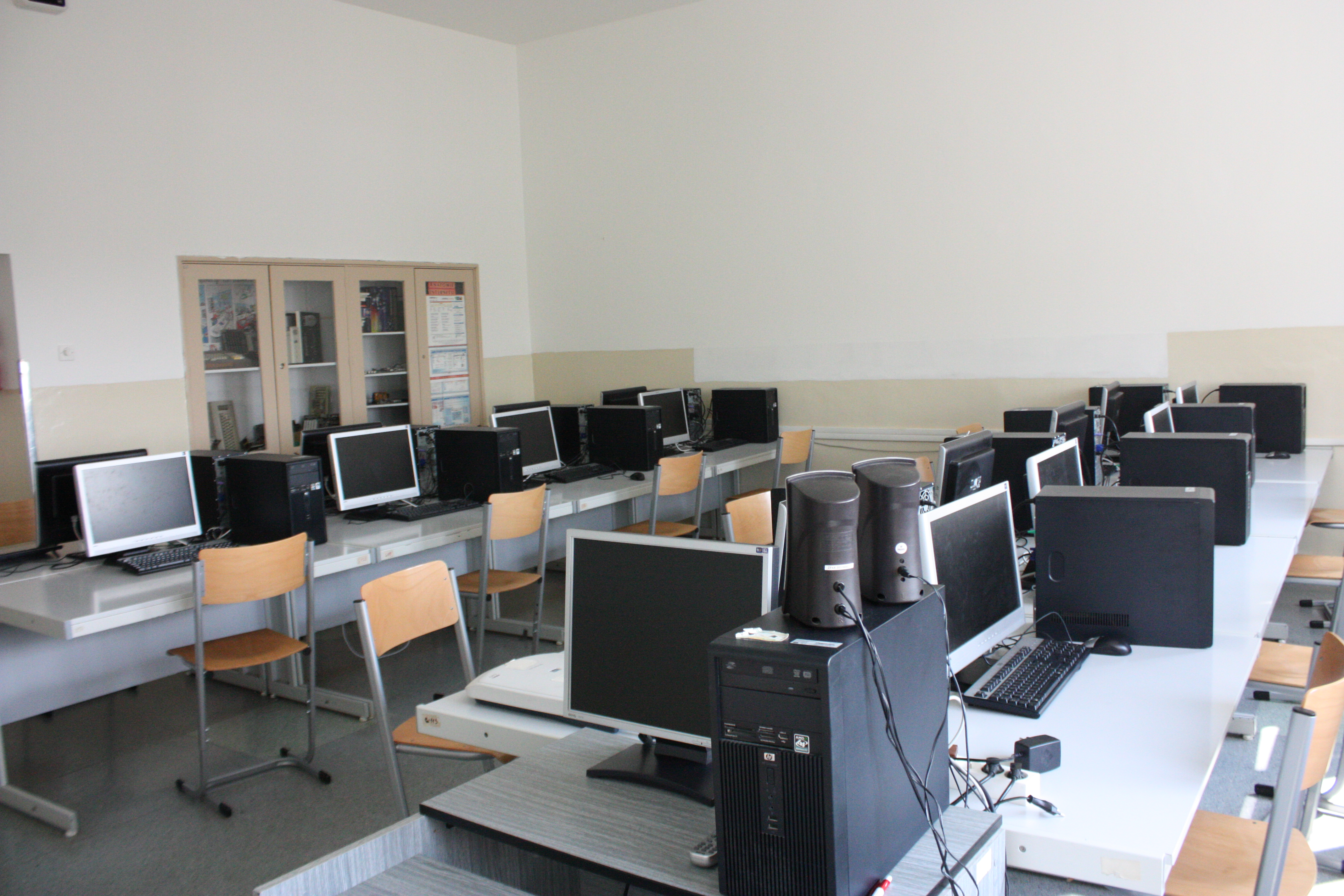 Gymnázium Brno-Řečkovice, computers Česky: Gymnázium Brno-Řečkovice, učebna informatiky, počítače